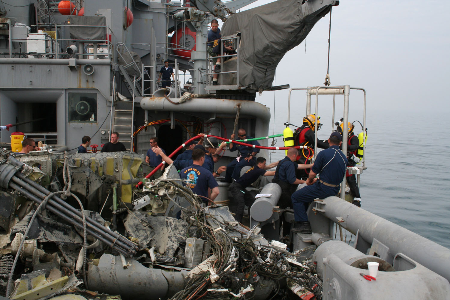 Yellow Sea (May 10, 2006) - With a large amount of recovered wreckage from a downed U.S. Air Force F-16C fighter aircraft aboard the fantail of rescue and salvage ship USS Safeguard (ARS 50), a pair of ship's divers return to the ship with additional wreckage. The F-16C aircraft was lost in the Yellow Sea March 14. Safeguard divers along with a detachment from Mobile Diving Salvage Unit One (MDSU-1) successfully completed the salvage mission with the recovery of the majority of components of the aircraft as well as its black box. U.S. Air Force Photo by Staff Sgt. Melissa Allan (RELEASED)